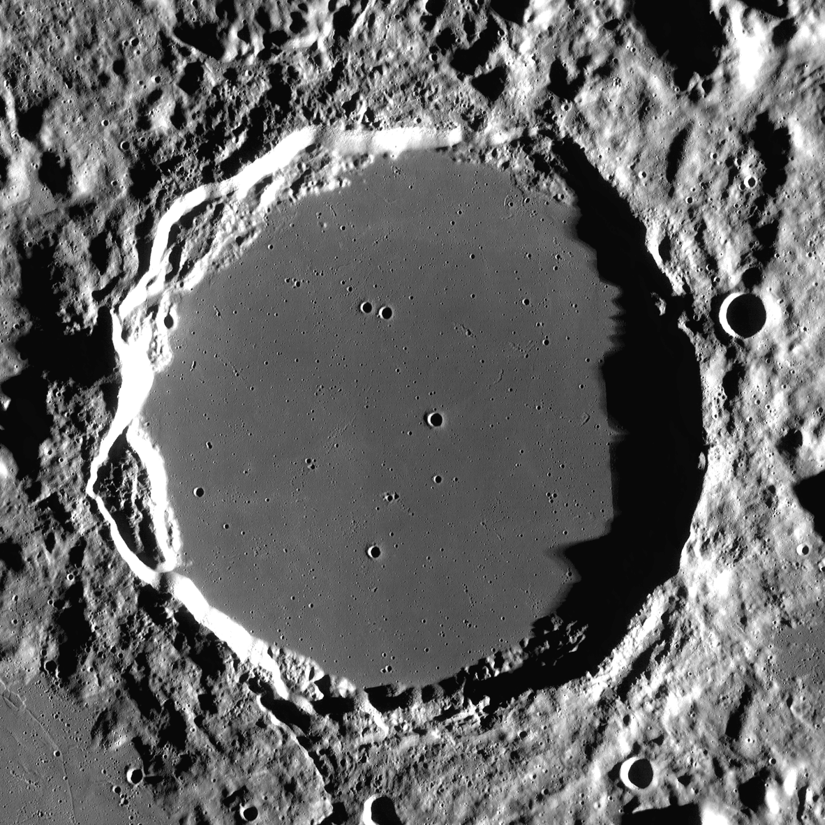 Crater Plato on the Moon, near Mare Imbrium. Mosaic of photos by Lunar Reconnaissance Orbiter, made with Wide Angle Camera. Size of the image is 140×140 km, north is up.